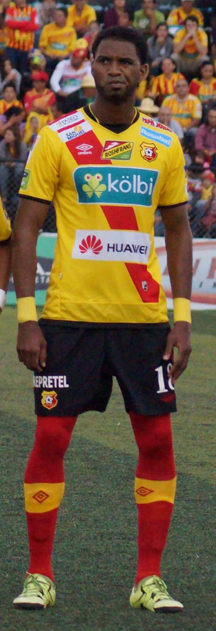 Dave Myrie playing for Herediano.